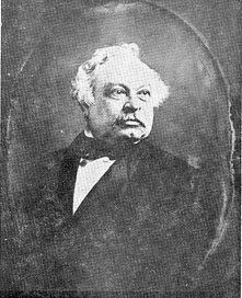 Photograph of José Antonio Páez, taken in the mid 19th century.